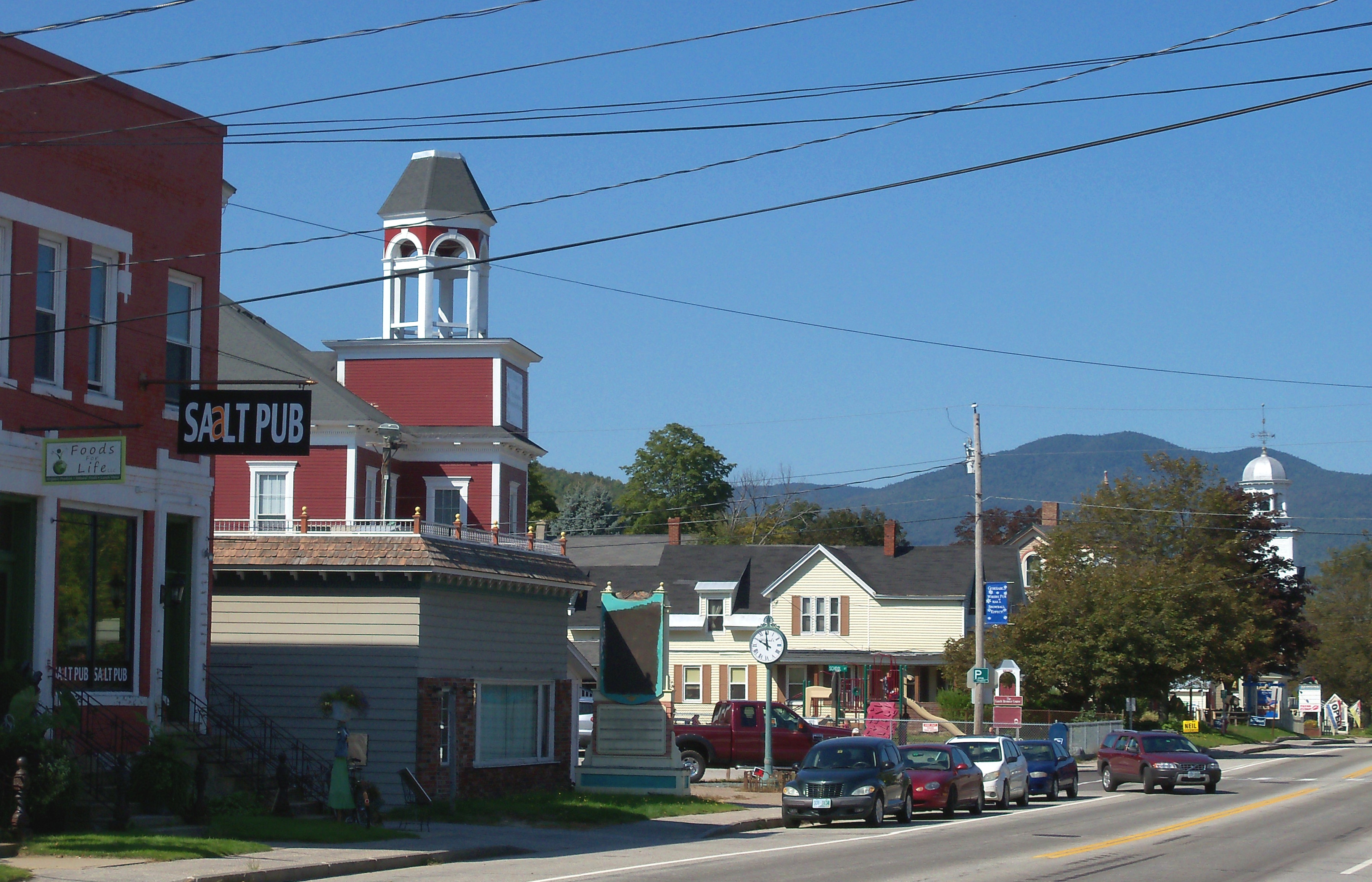 Buildings along Main Street in Gorham, New Hampshire, USA.